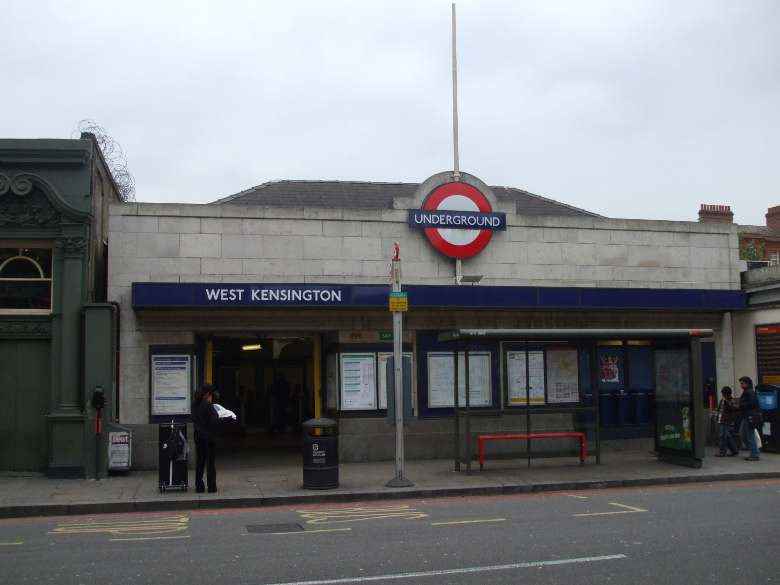 West Kensington tube station